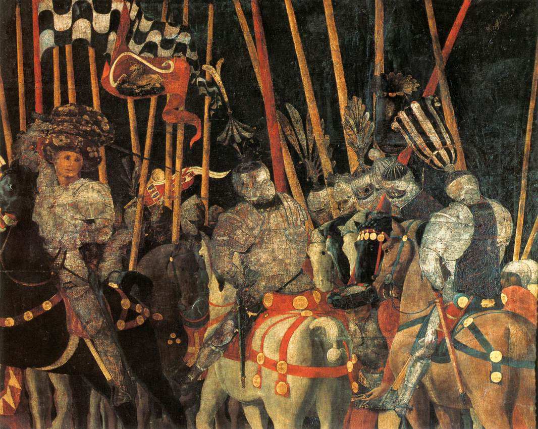 UCCELLO, Paolo Micheletto da Cotignola Engages in Battle Tempera on wood, 180 x 316 cm Musée du Louvre, Paris